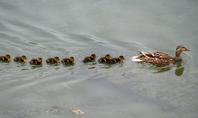 Mallard and ducklings, Bangor [2] The mallard and her eleven ducklings (some missing unseen to left) back in Bangor marina - for explanation see 836569.